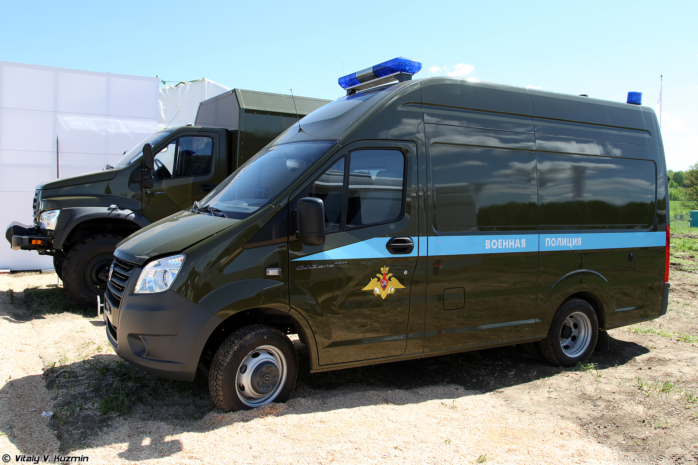 The Day of Advanced Technologies of Law Enforcement 2017